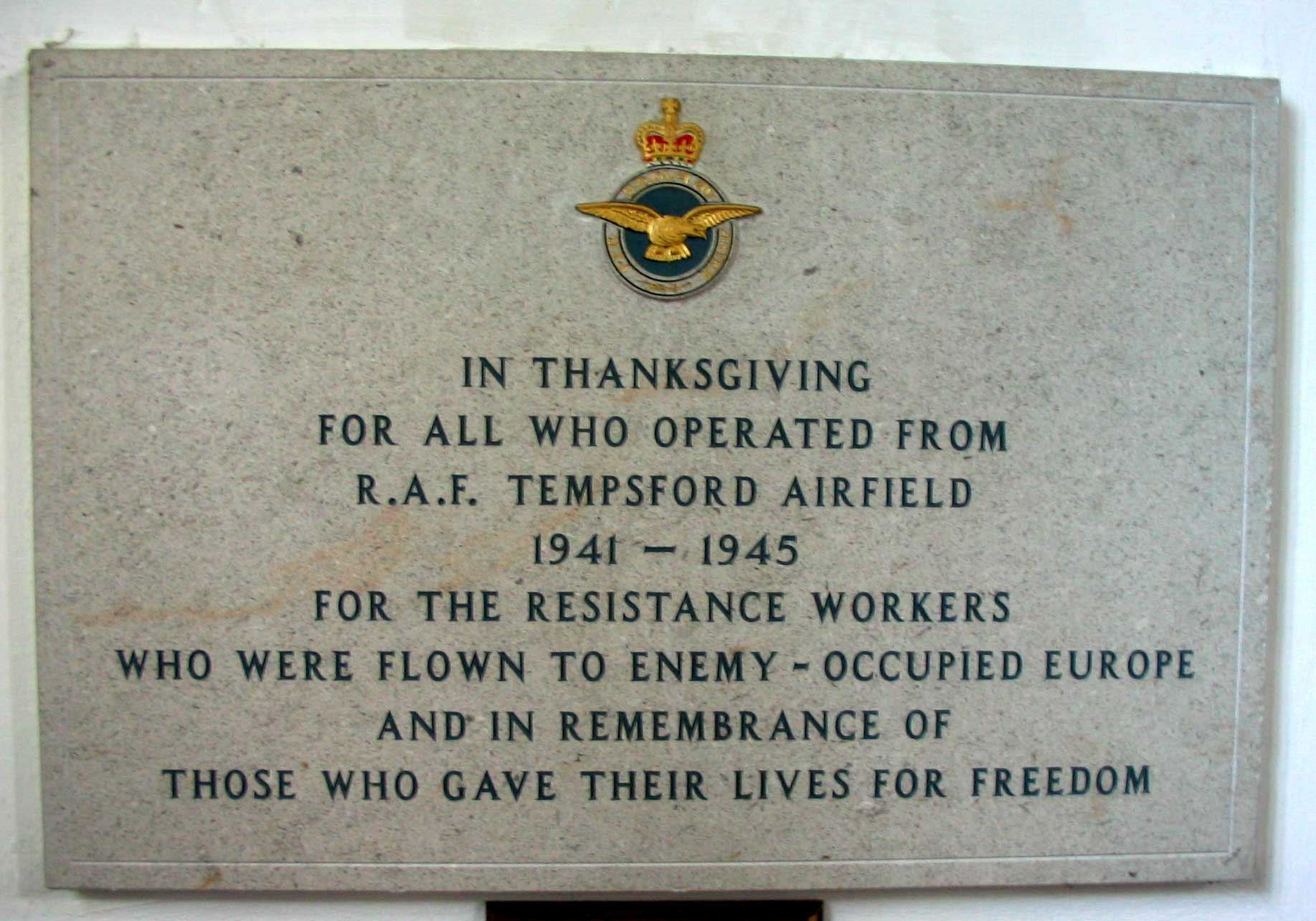 Photograph of the memorial plaque in St Peter's Church, Tempsford, Bedfordshire.